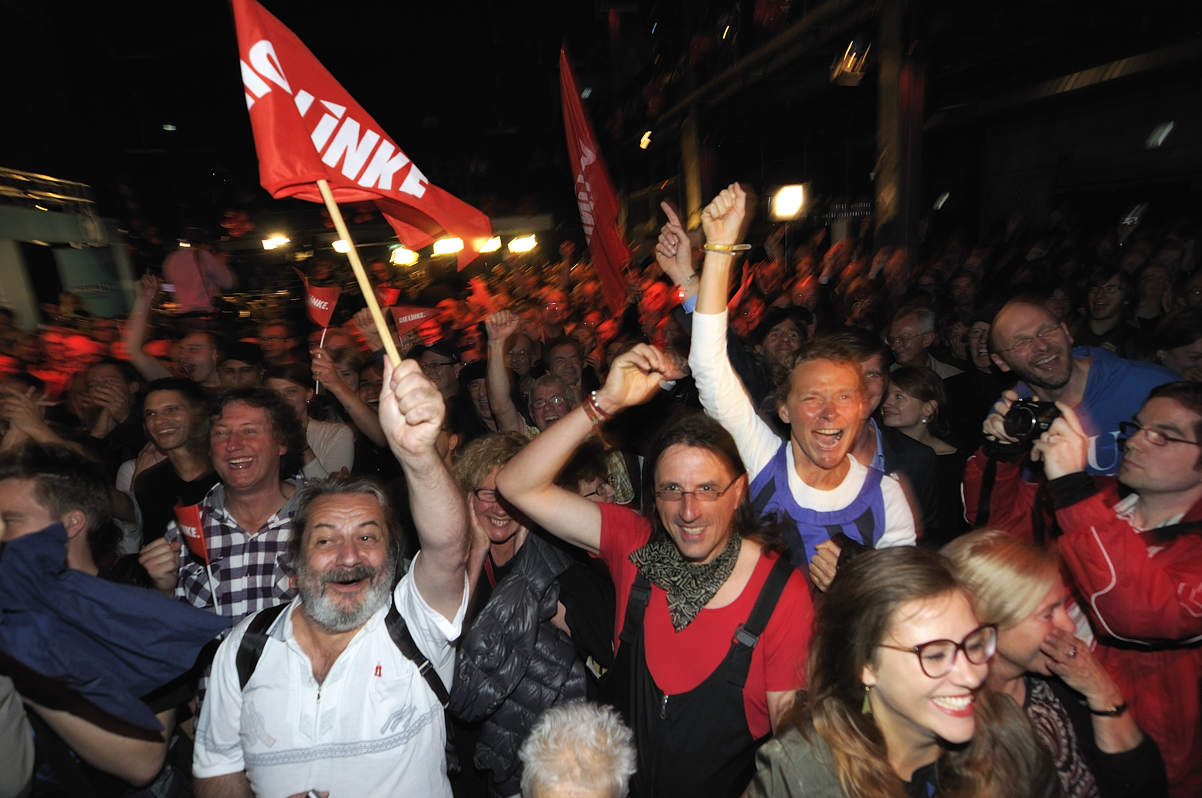 Celebration of the left-wing party in the Berlin Kulturbrauerei.